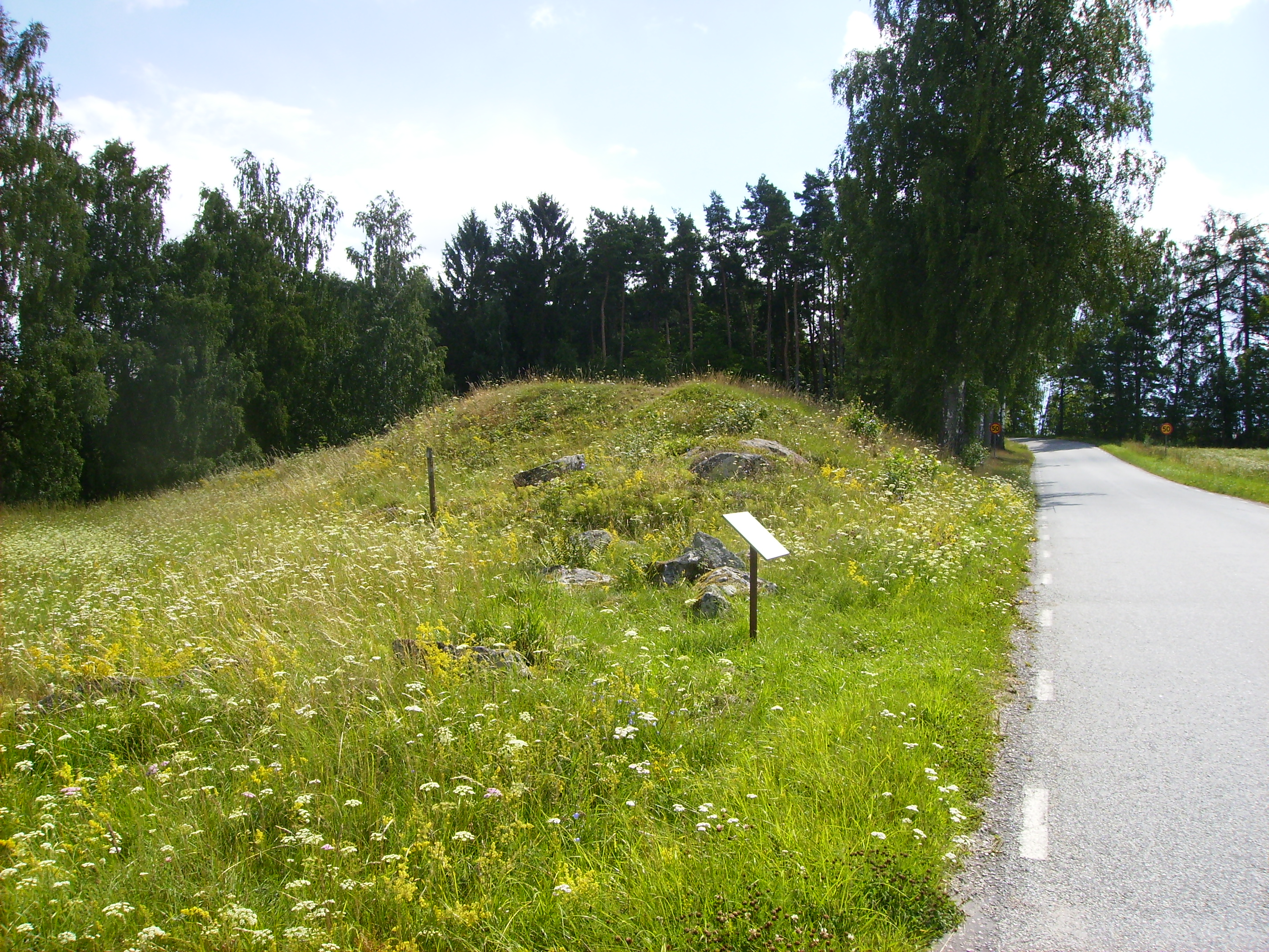 Glanshammar grave field.